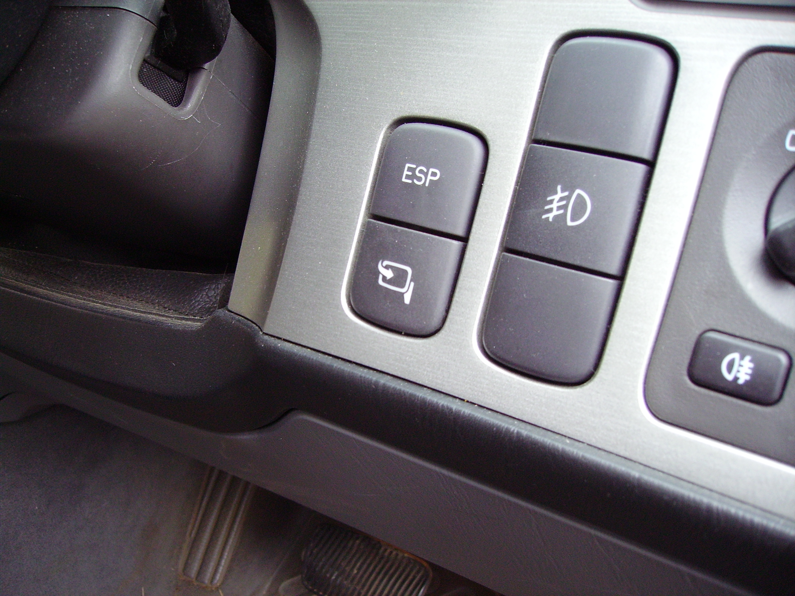 Side-view mirror retraction control (Saab 9-5)